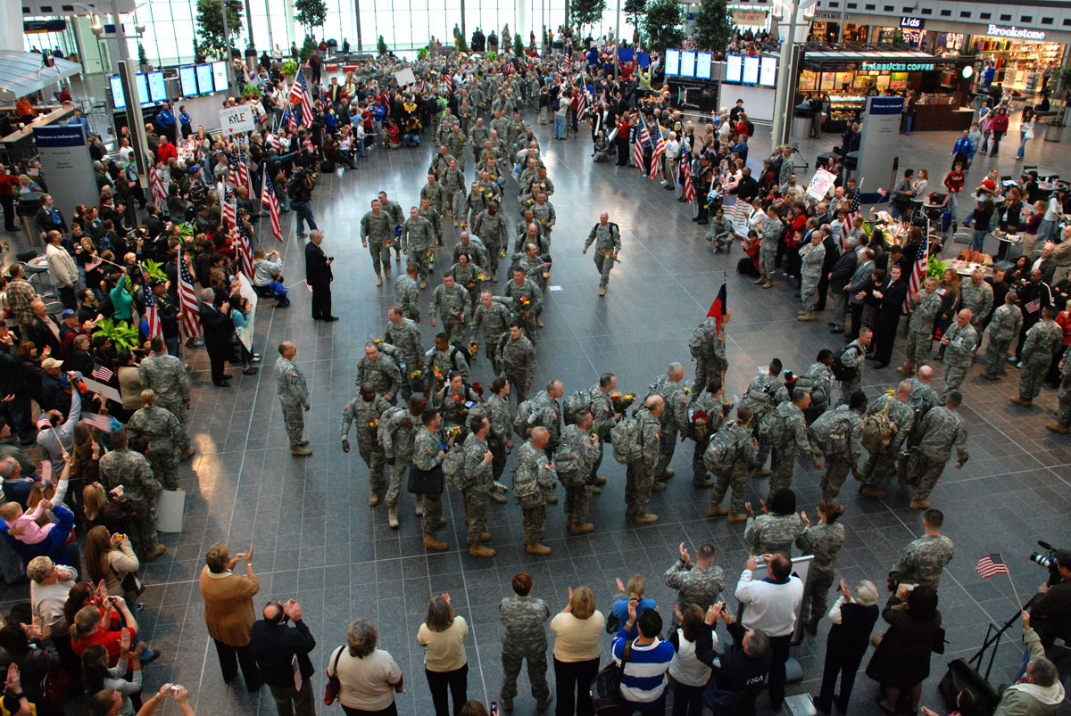 Indiana Army National Guard Soldiers with the 76th Infantry Brigade Combat Team march into the Col. H. Weir Cook Terminal civic plaza at the Indianapolis International Airport on Nov. 12. While deployed to Iraq, the brigade�s Soldiers supported security missions, aerial reconnaissance missions, presence patrols, convoy escorts, and high profile reconstruction efforts to the Iraqi economy. See more at Army.mil